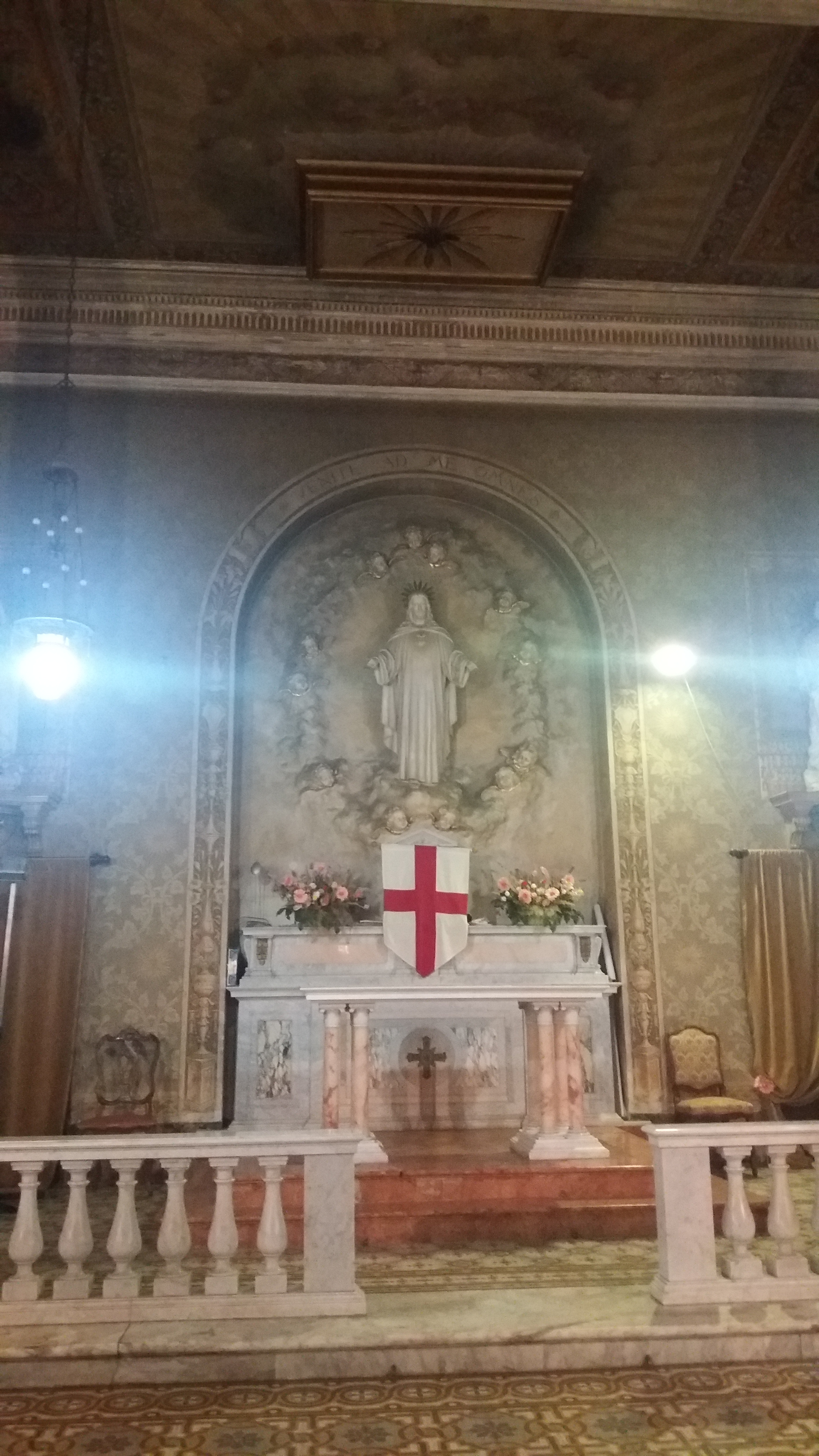 Villa De Mari chapel